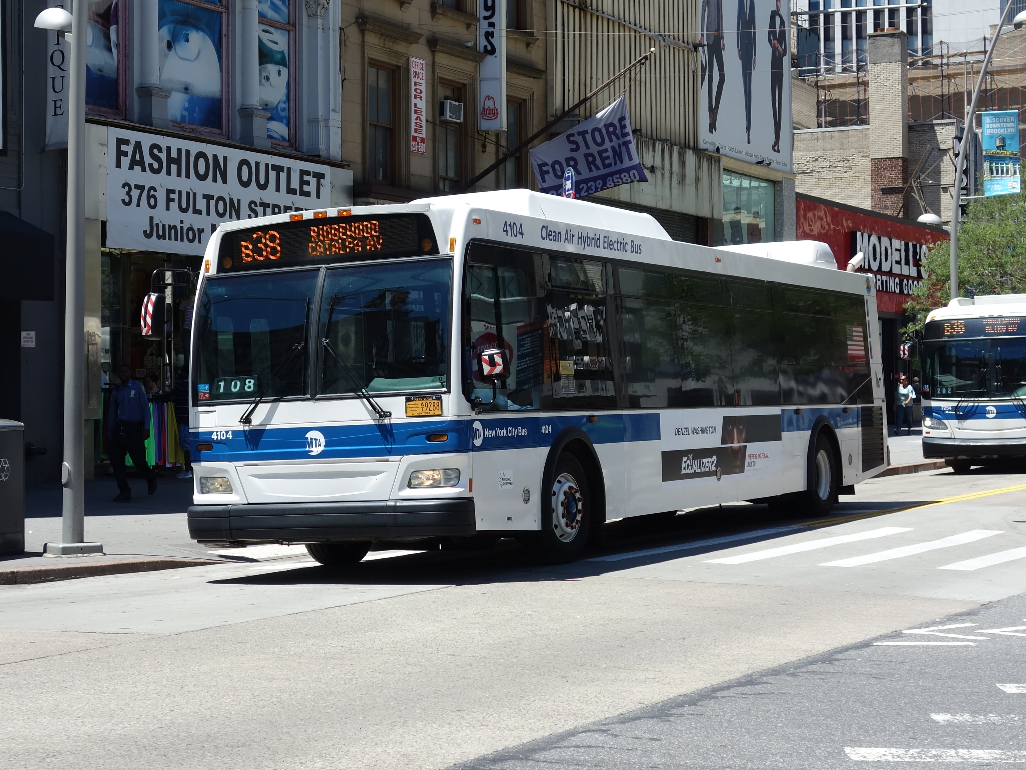 A Ridgewood–Catalpa Avenue (Ridgewood Terminal)-bound B38 bus leaving a stop at Fulton Mall and Jay Street / Smith Street in Downtown Brooklyn. A second B38 is behind it.